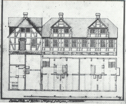 An architectural rendering - but not the final design - for the Palace gardener's house in Hørsholm, Denmark